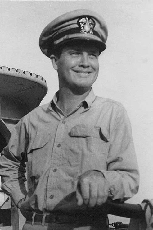 Photo #: NH 50510 Commander Samuel D. Dealey, USN Who was awarded the Medal of Honor, posthumously, for "conspicuous gallantry and intrepidity" while in command of USS Harder (SS-257) during her Fifth War Patrol, June 1944, when she sank three enemy destroyers and was credited with heavily damaged or sinking two others. For her performance during six successful war patrols, Harder was awarded the Presidential Unit Citation and earned the nickname "Hit 'Em Again, Harder." U.S. Naval Historical Center Photograph.